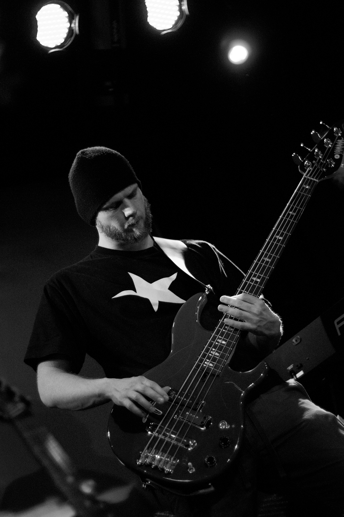 Kristian Torp of Gazpacho